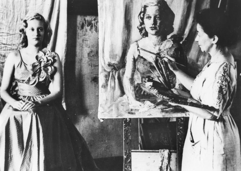 Portrait of Rhonda Kelly by artist Caroline Barker, 1942 Rhonda Baker was the first Miss Australia in 1942. She was painted by Brisbane portrait painter, Caroline Barker in her George Street Studio. Miss Barker was a vice president at the Royal Queensland Art Society. She also taught there.